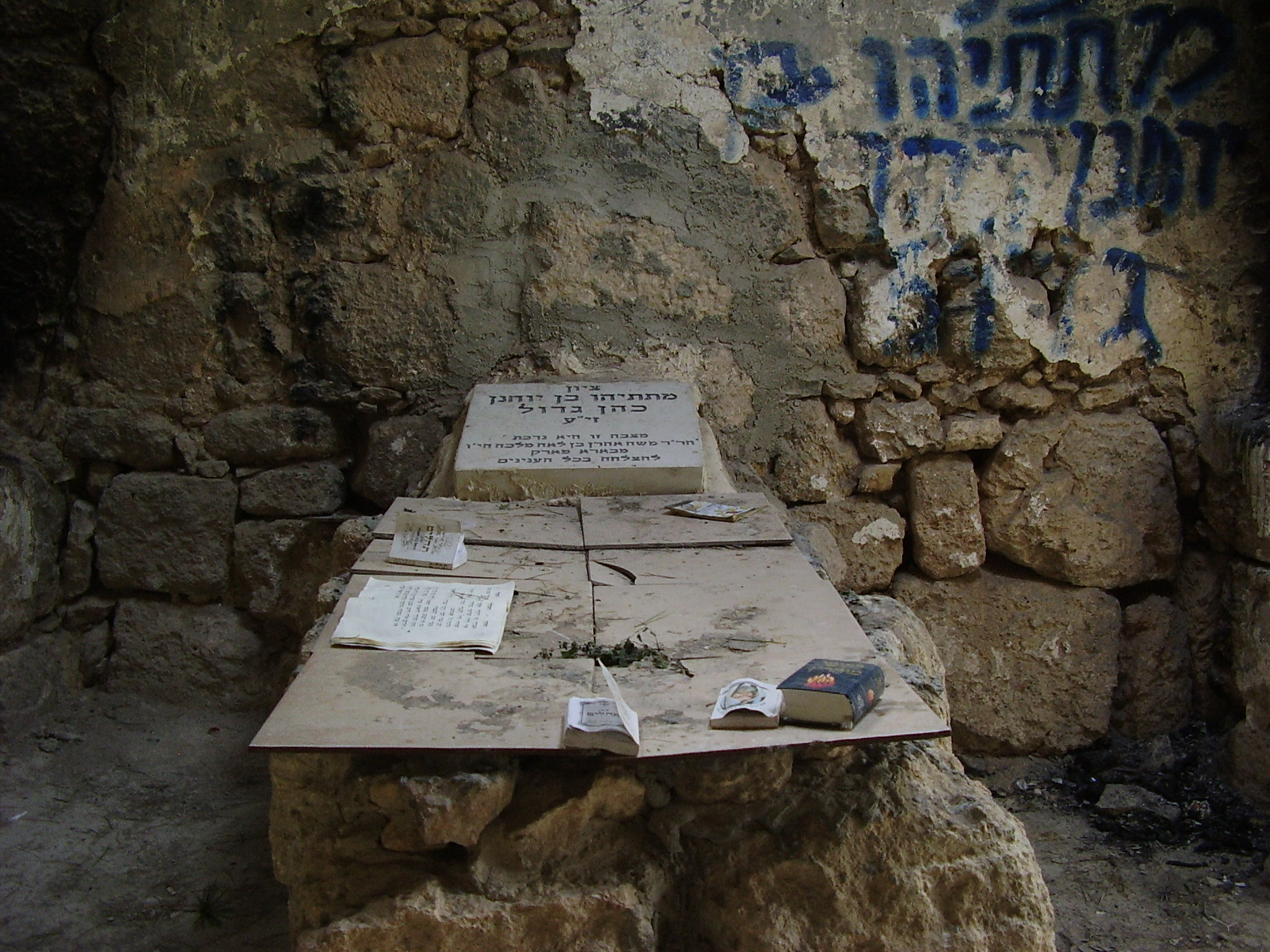 matityahu grave